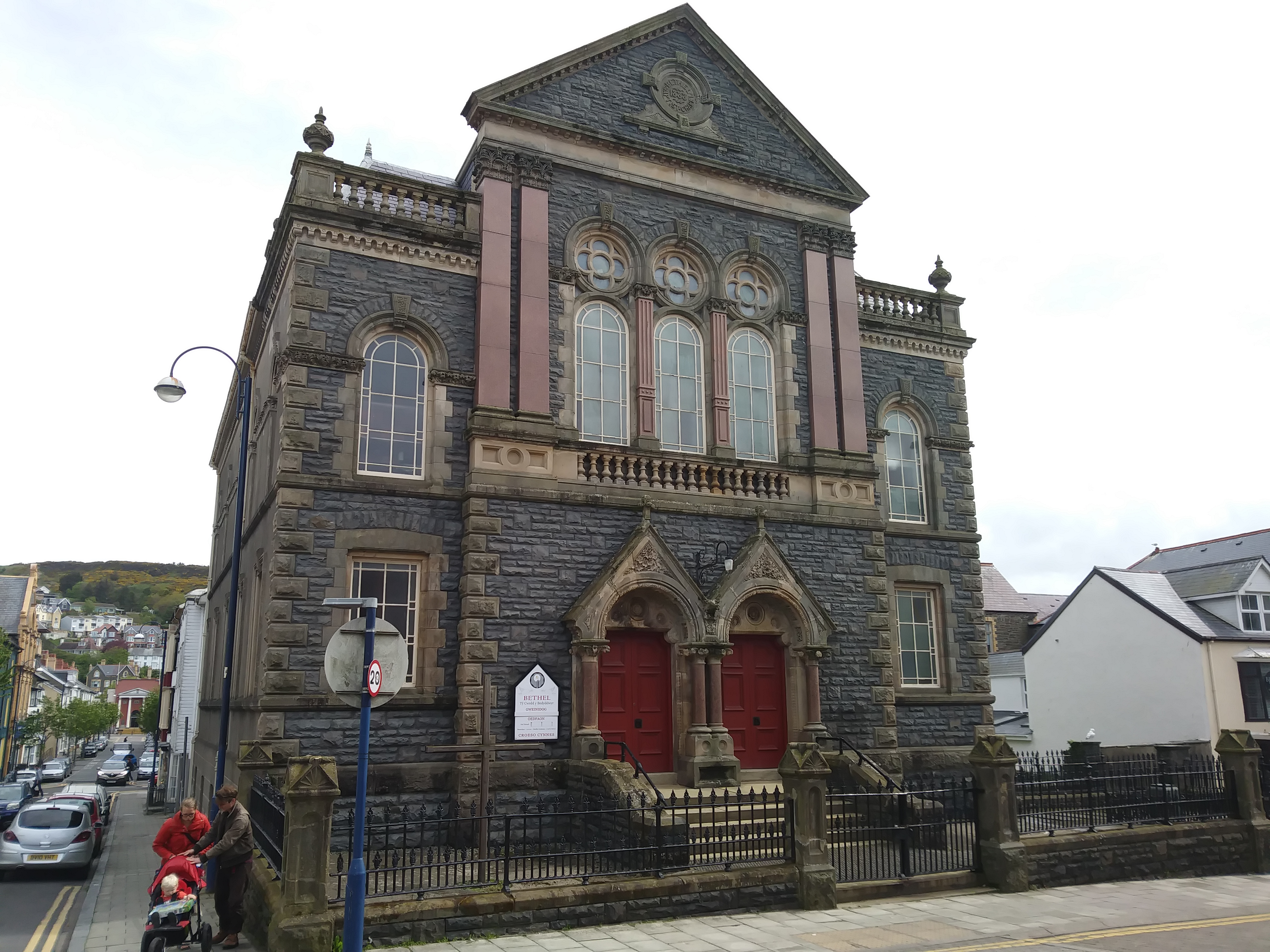 Capel Bethel, Baker St, Aberystwyth